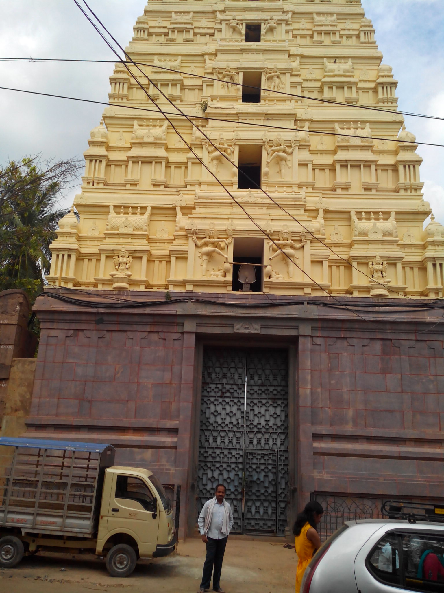 Gopuram